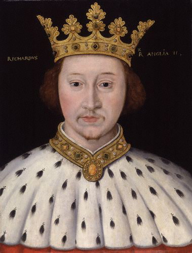 Richard II of England